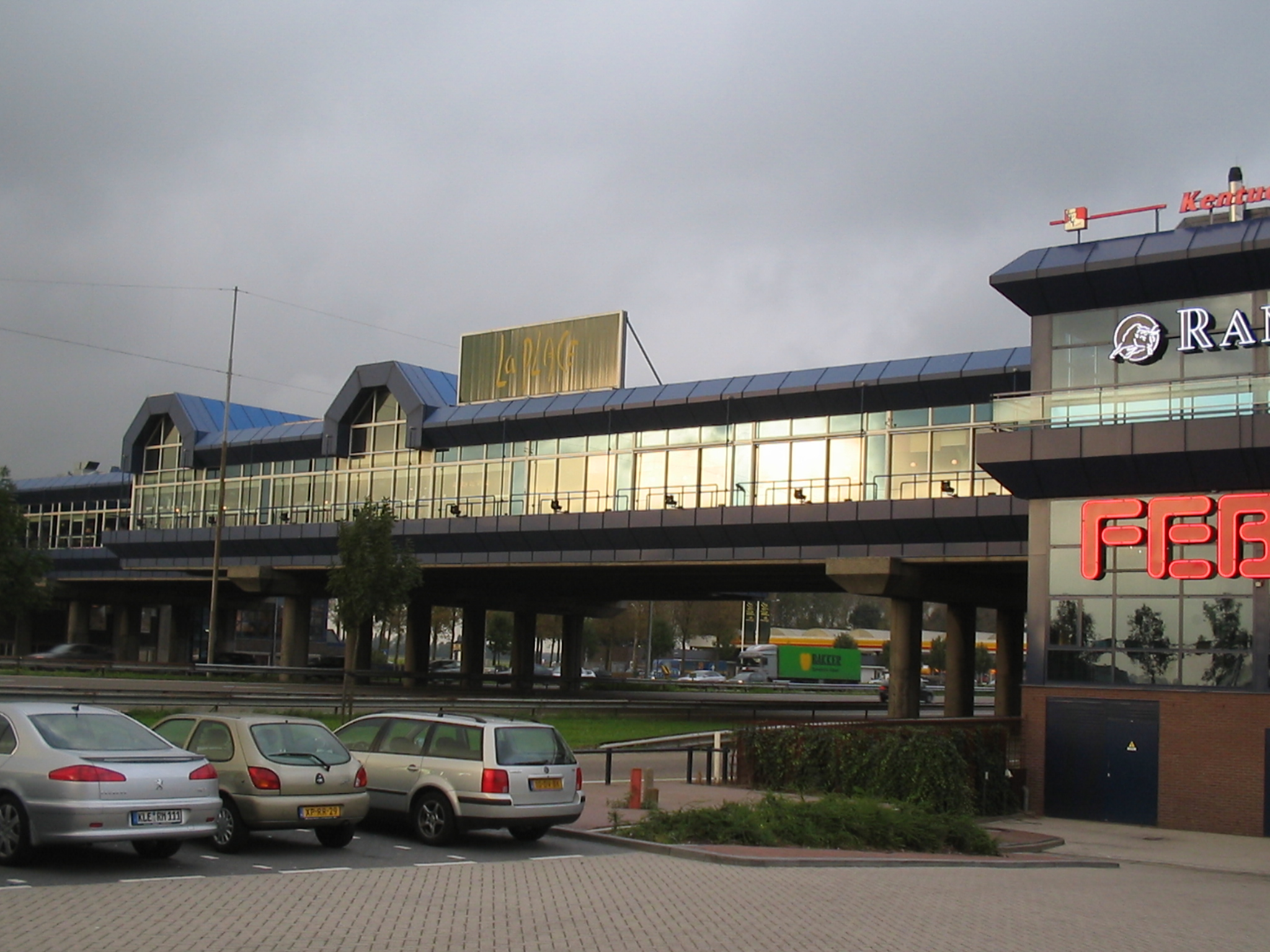 Restaurant built over the A4 motorway in the Netherlands.